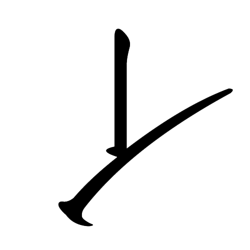 This image is rotated (イ) and was made by me. Reference: This image in Iroha and Aiueo